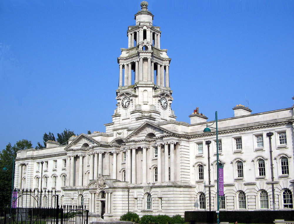 Stockport Town Hall in Stockport, Greater Manchester, England. Photo by G-Man * Oct 2006